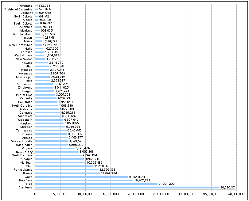 US Population